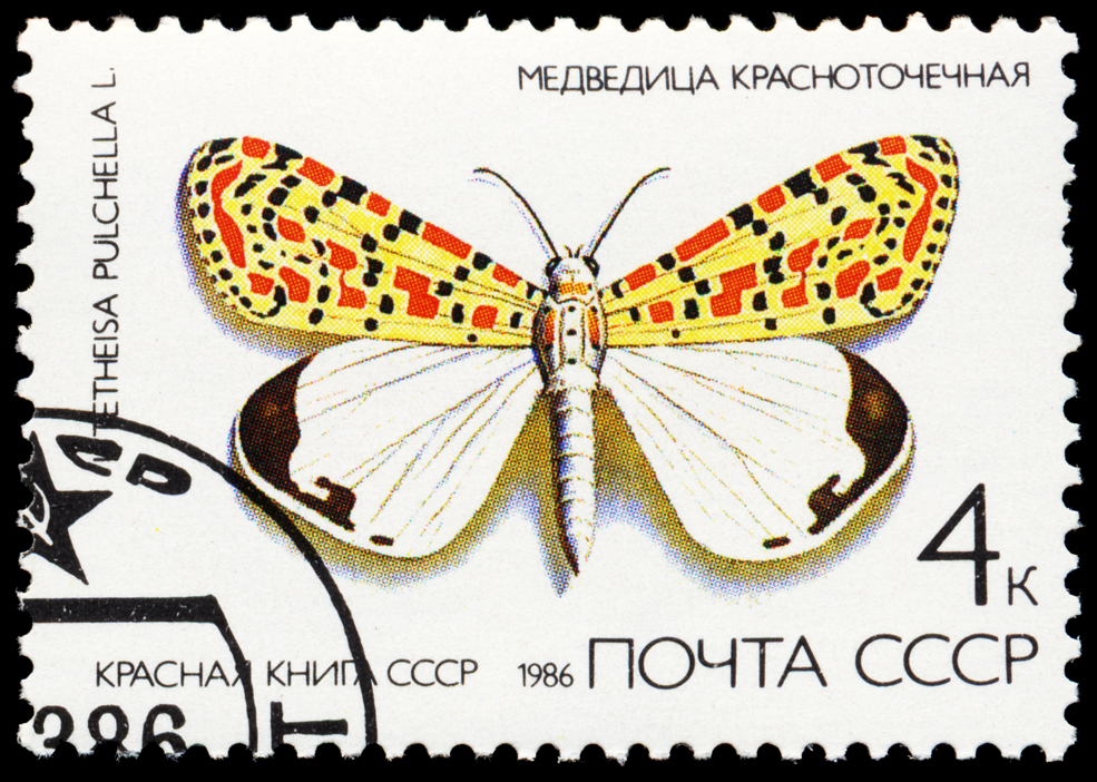 Stamp description Motif: Rare Butterflies - Crimson Speckled (Utetheisa Pulchella) Issue Price: 4 K First Day of Issue: 18.03.1986 Circulation: 6.500.000 Michel-Catalog-Number: 5584 Scott-Catalog-Number: 5435